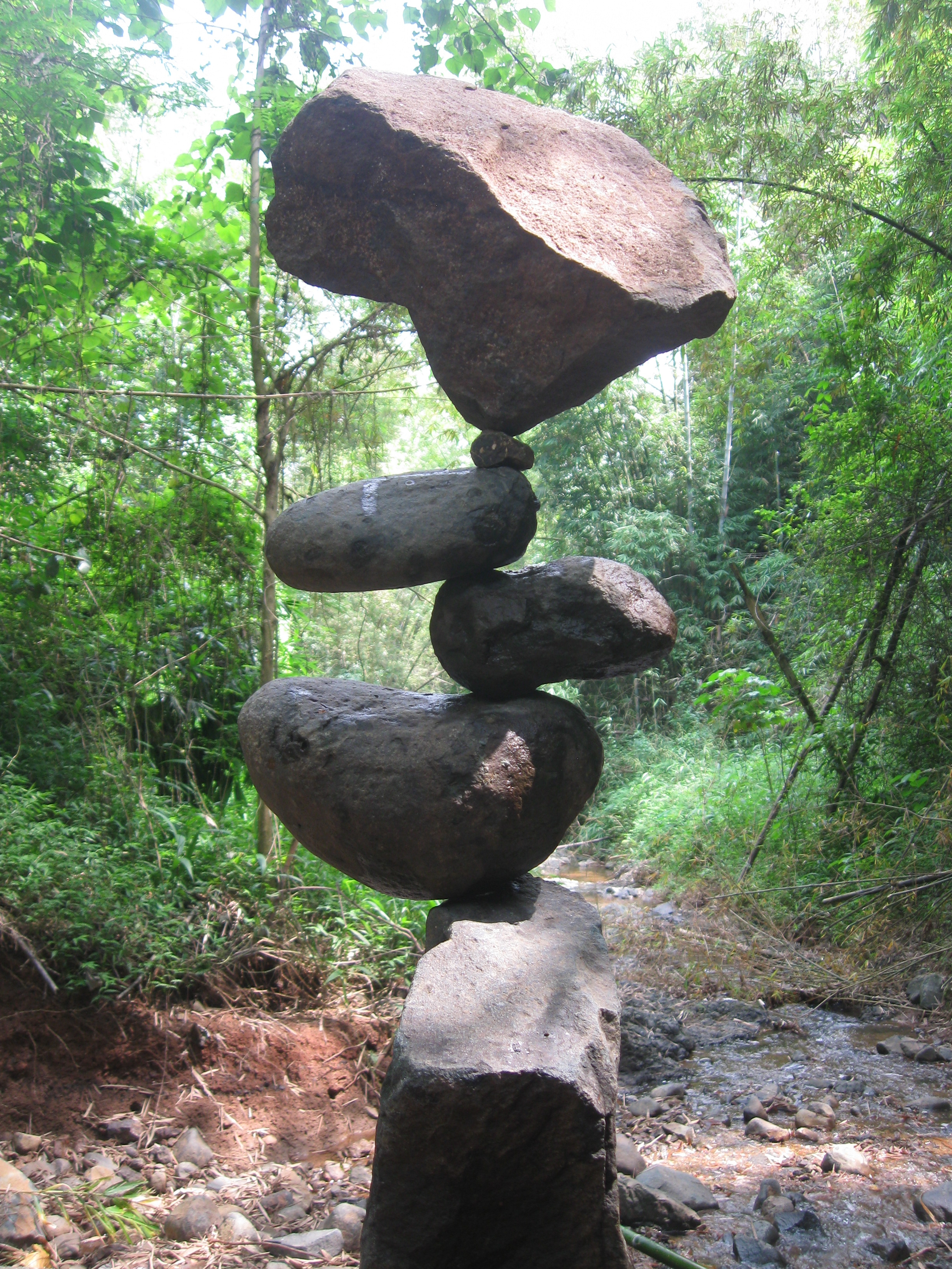 Counter Balance